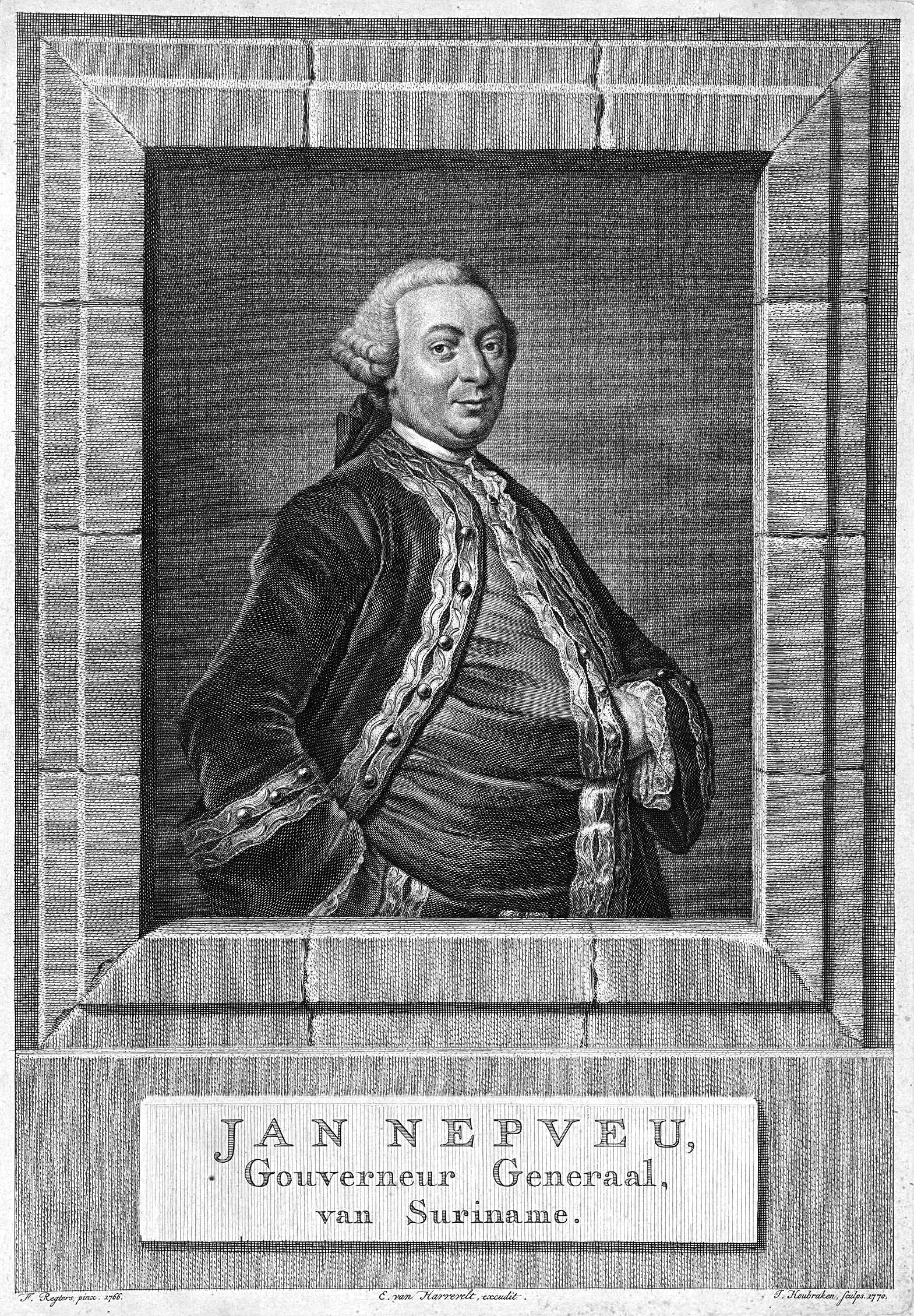 Jan Nepveu engraving on paper 1770